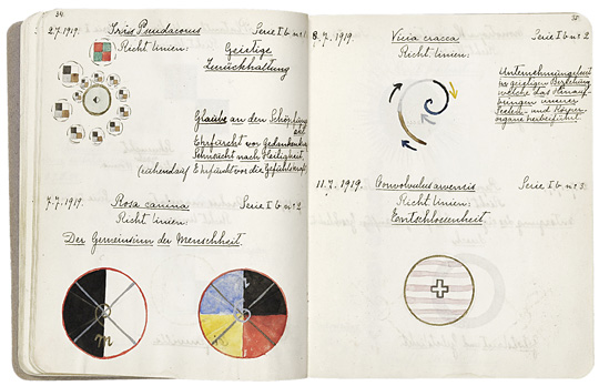 Booklet with drawings by Hilma af Klint.